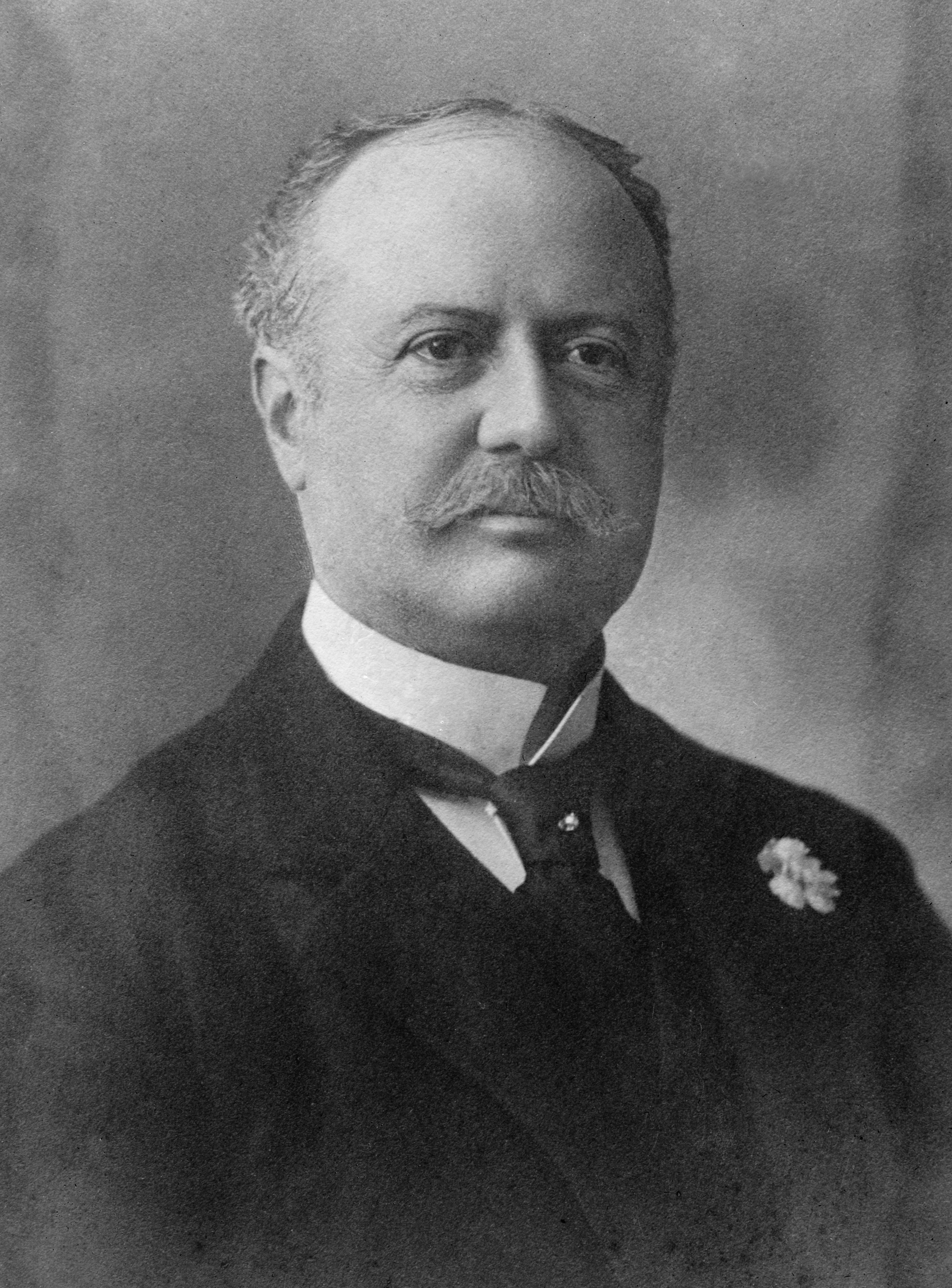 Samuel Pomeroy Colt, American industrialist and politician